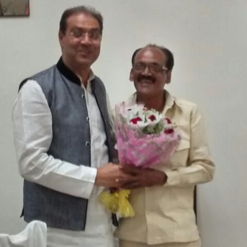 Mohsin Raza And Shadab Abdi